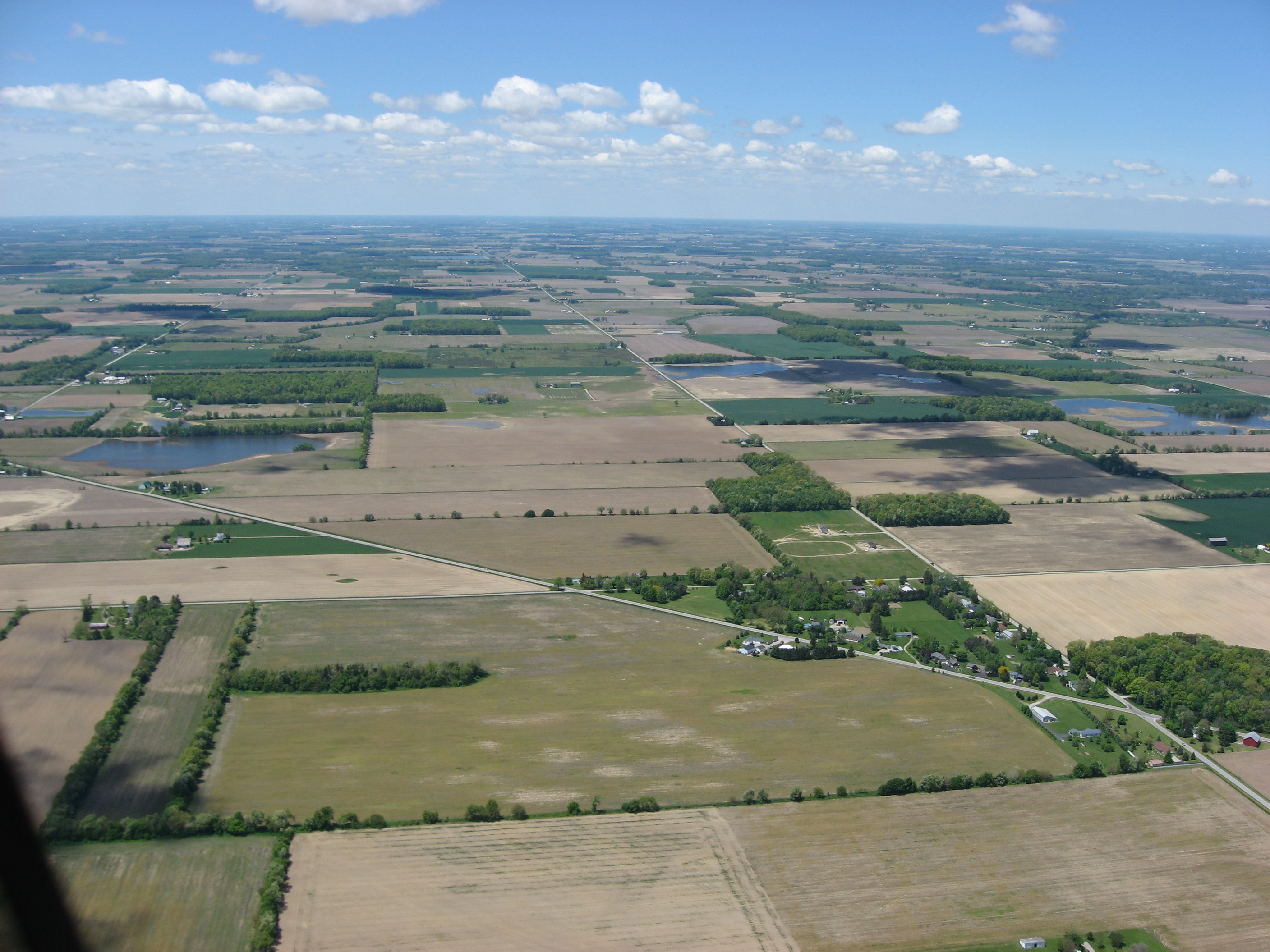 Aerial view of northern Thompson Township, Seneca County, Ohio, United States, southwest of Bellevue. Picture taken from a Diamond Eclipse light airplane at an altitude of 2,450 feet MSL and a bearing of approximately 278º. Triangular intersection on right side is that of County Road 34 and State Route 18.